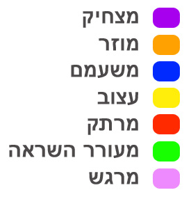 Levinski Garden Library Catalog